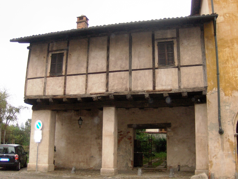 Old home in BIella, Piedmont, Italy